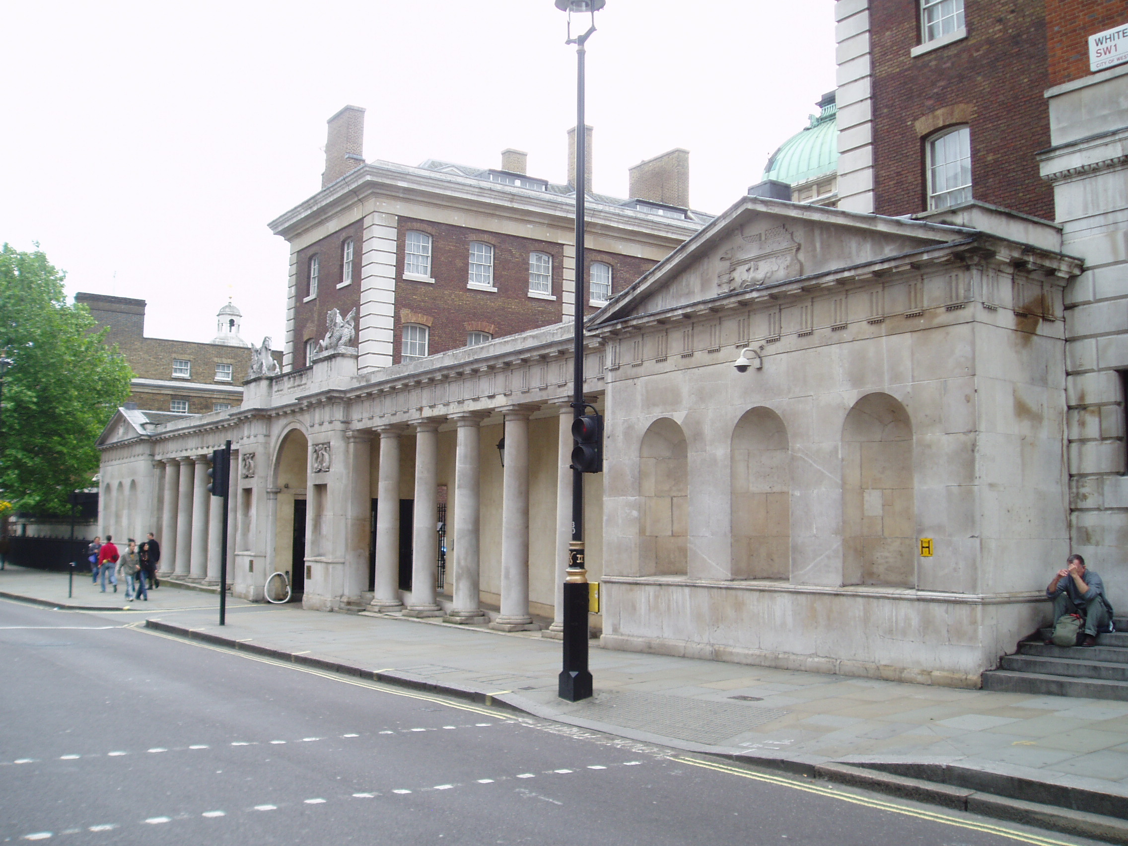 Admiralty Scrren 1759-61 by Robert Adam, Whitehall, London